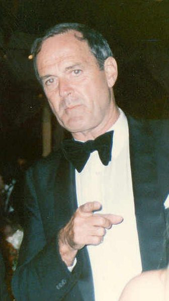 British Actor John Cleese